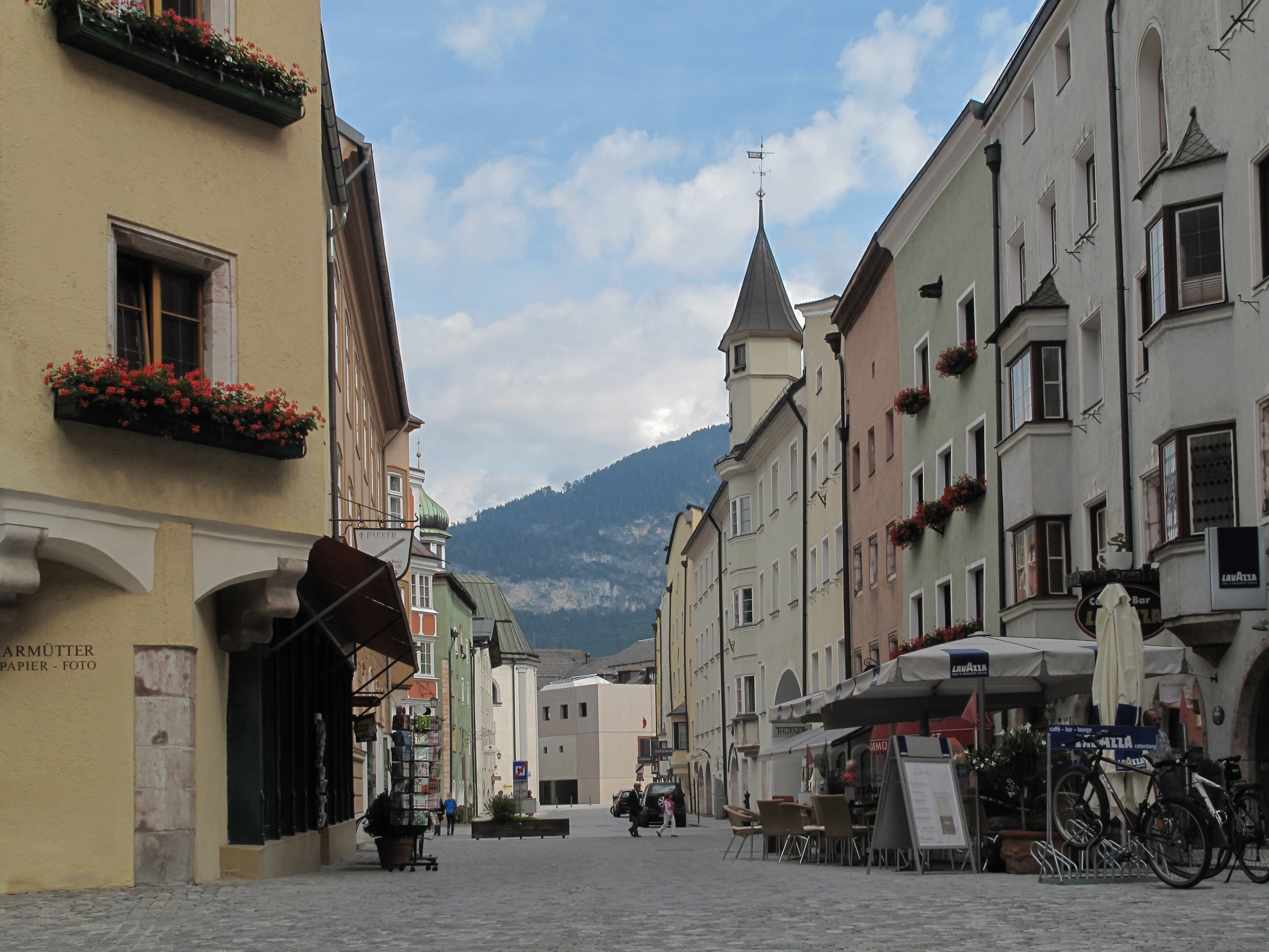 Rattenberg, view to a street: Bienerstrasse-Hassauerstrasse